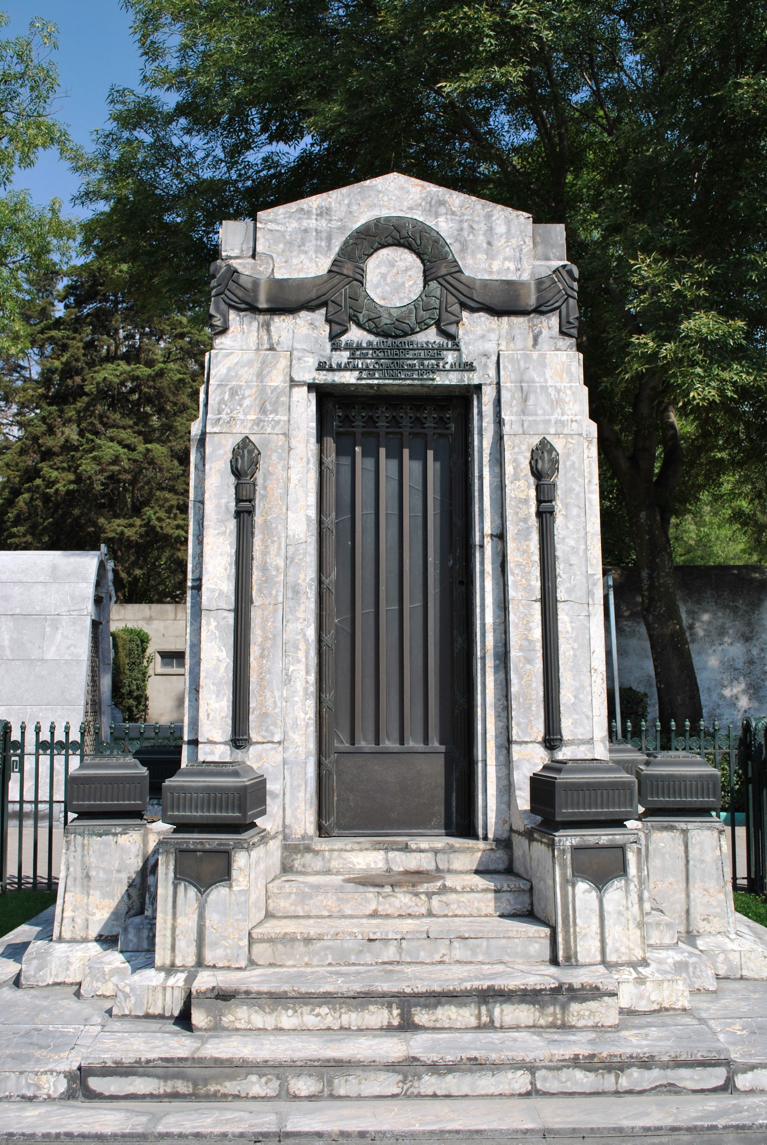 Tomb of General and President Plutarco Elias Calles just outside the Illustrious Person Rotunda in the Dolores Cemetery in Mexico City.